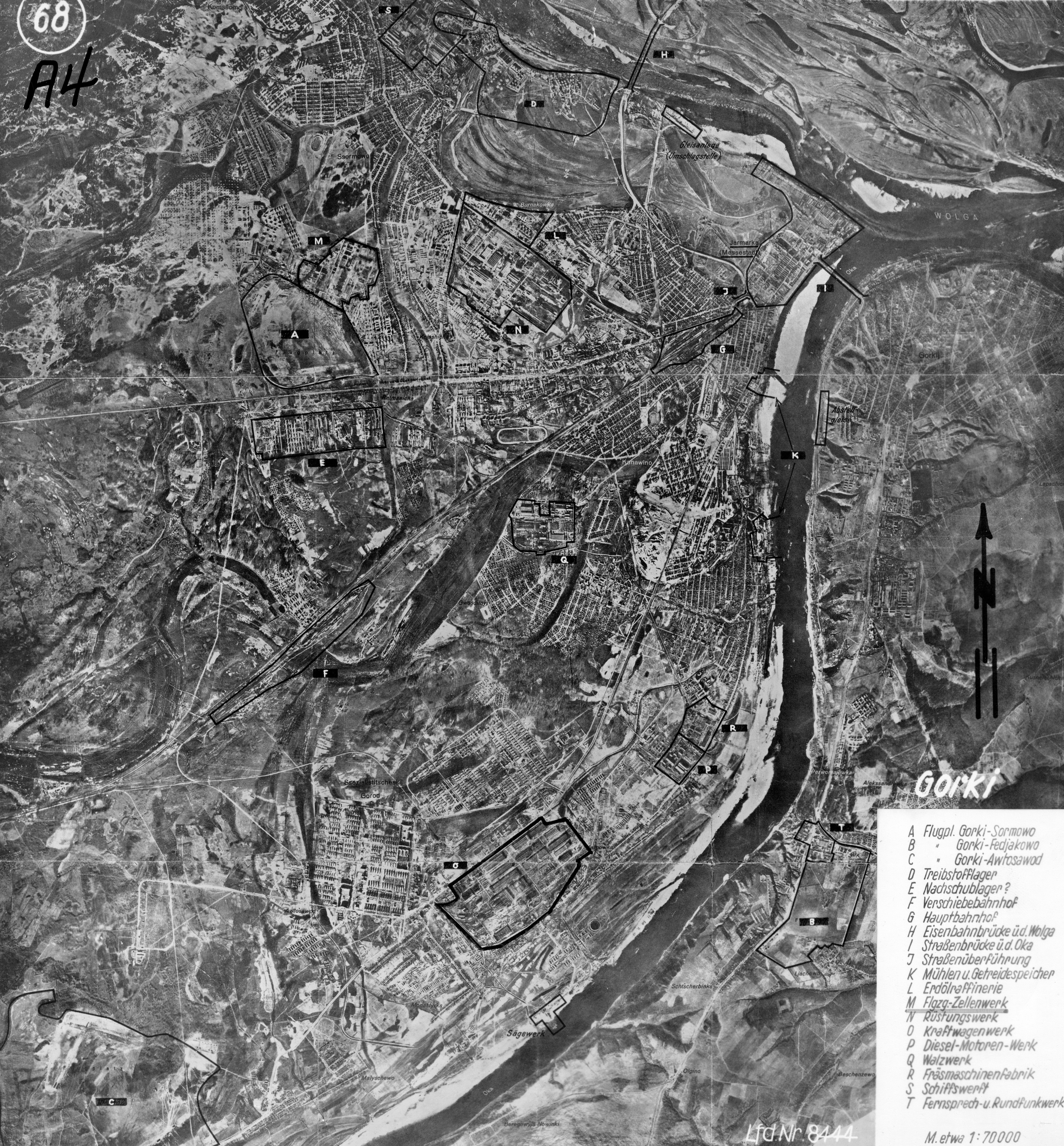 Map Gorky in Nazi invaders with objects for airstrikes